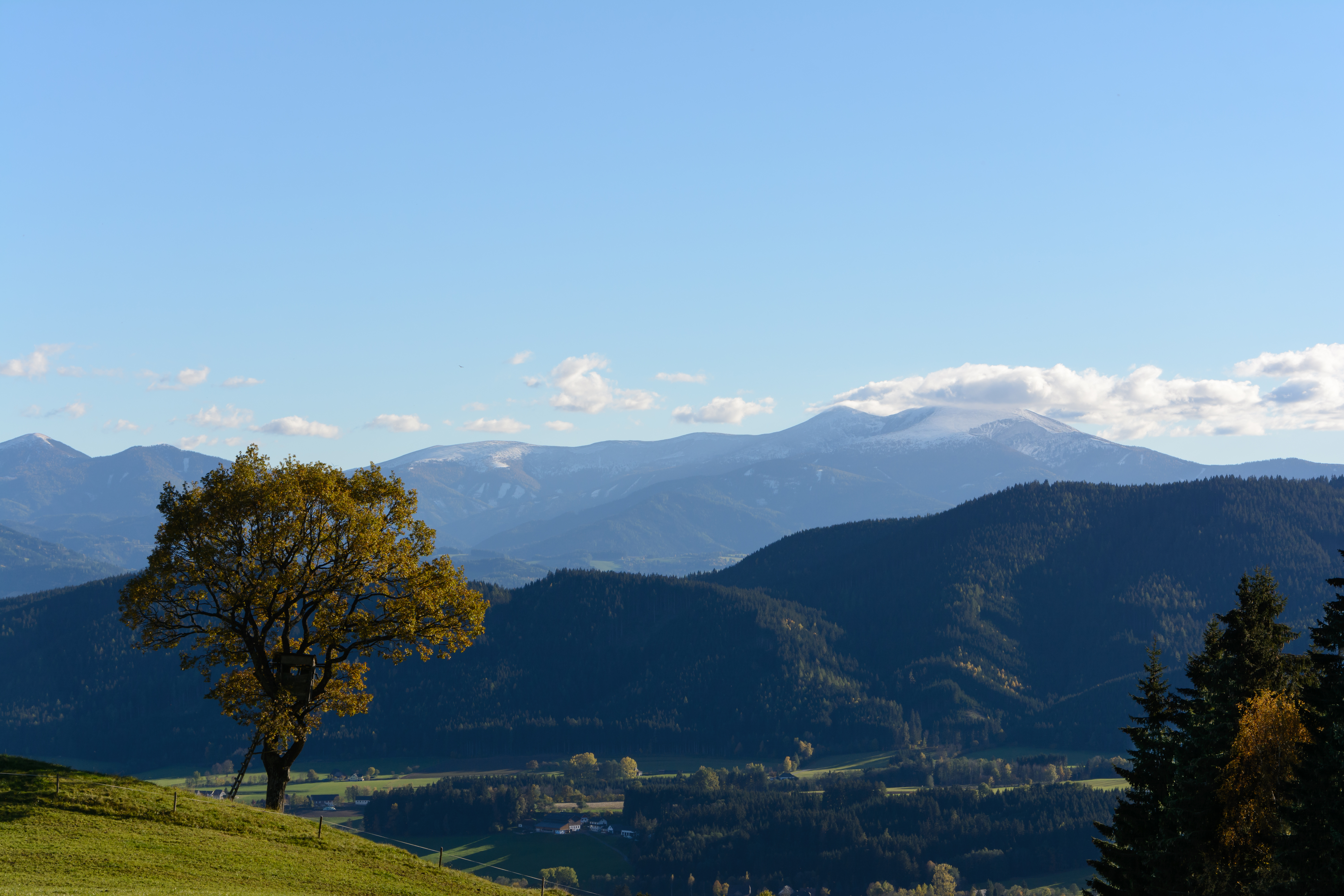 The Gleinalpe mountain viewed from Sonnwenddorf near Seckau, Styria, Austria